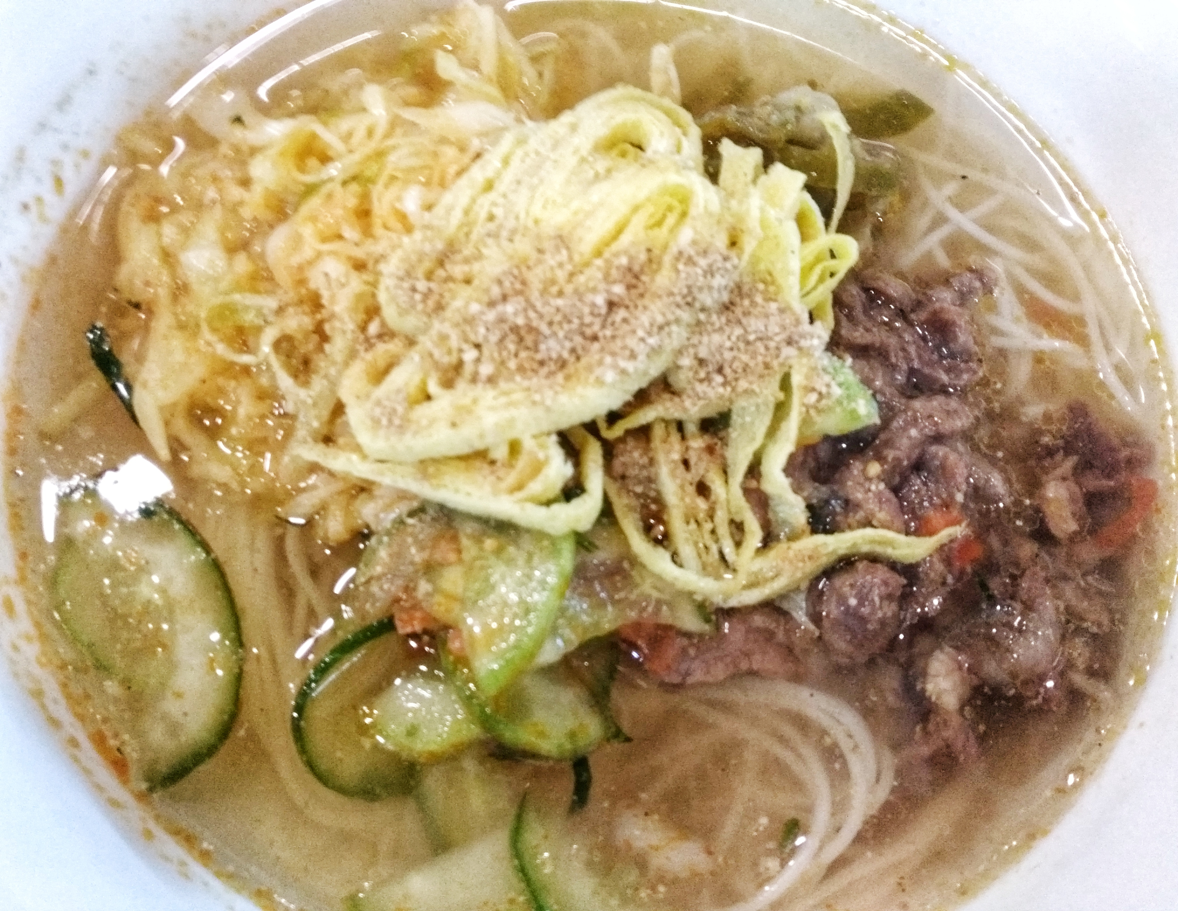 Kuksi, the Russo-Korean version of janchi-guksu (banquet noodles)